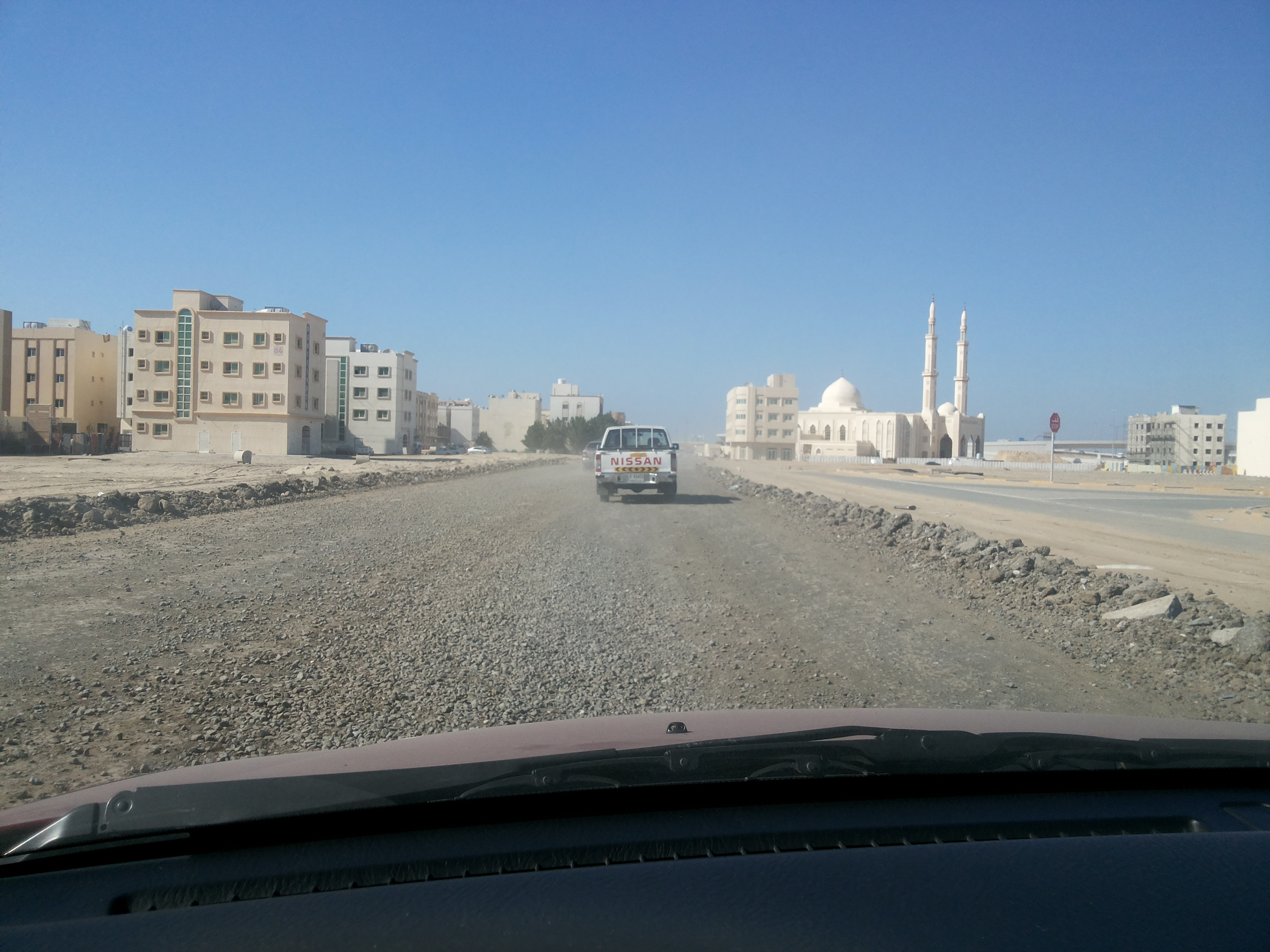 A macadam road in sharjah UAE near the Emirates highway taken on the ninth of December 2013 between 12:20 PM and 01:15 PM Abu Dhabi local time UAE